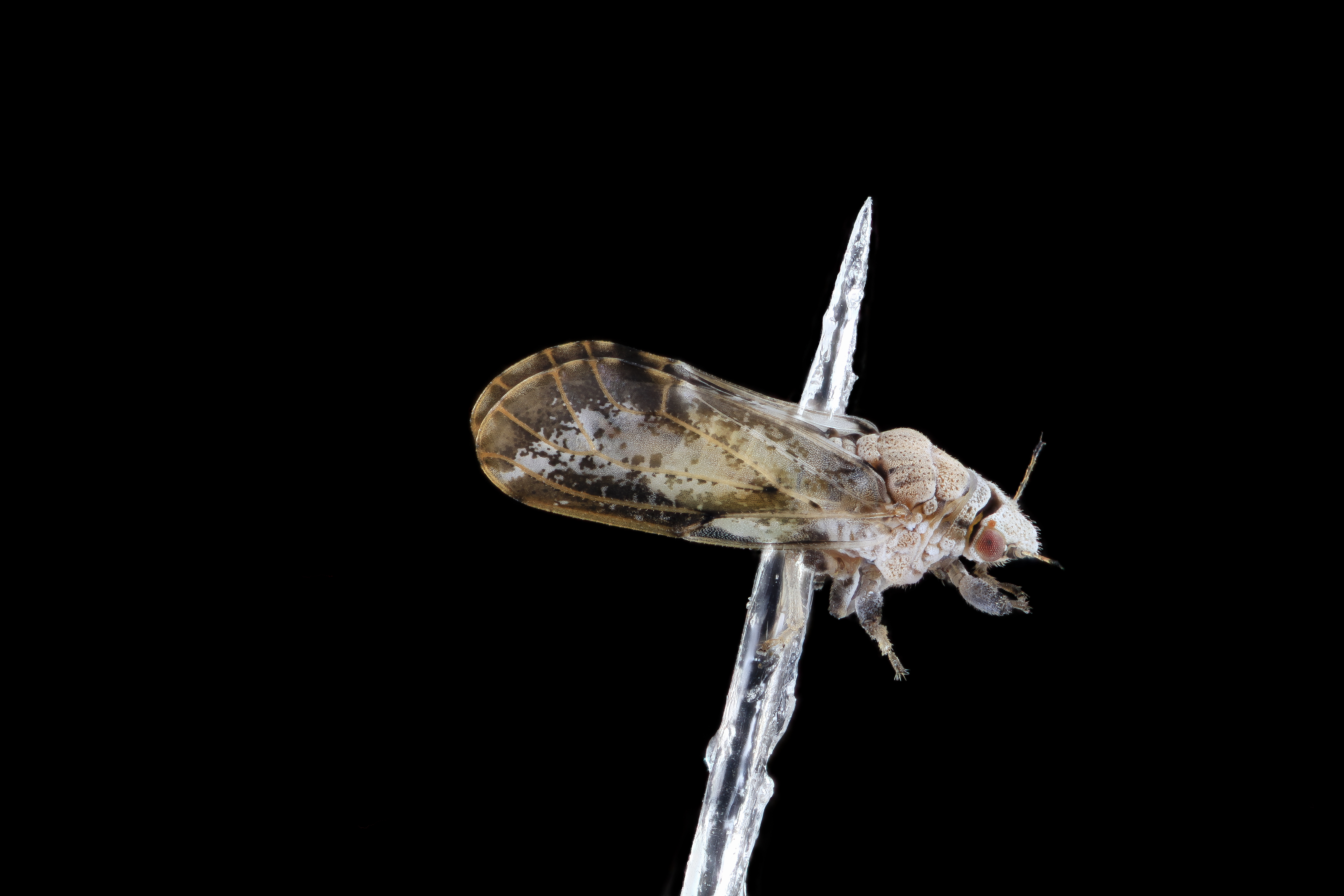 A series of shots of Citrus Psyllid adults (including a recently emerged white adult) , and larvae of Diaphorina citri which is the transporting agent of citrus greening disease now devastating Florida's orange groves. Pictures taken at Level 3 level quarantine at USDA's Lab at Ft. Detrick, Maryland. Thanks to Tina Paul for fascilitating all of this. One of the larval pictures just made it into the October Nat Geographic Magazine. Those are acupuncture pin the psyllid is taken on...tiny beasts. Diaphorina_citri